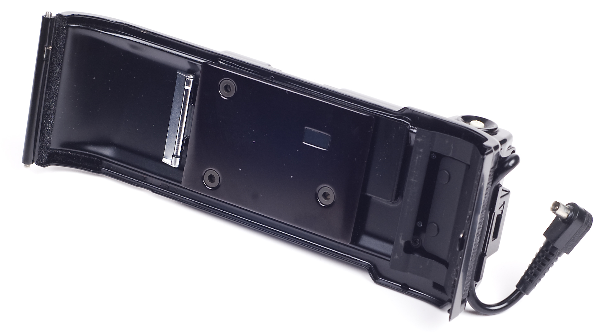 Canon Databack A inner side